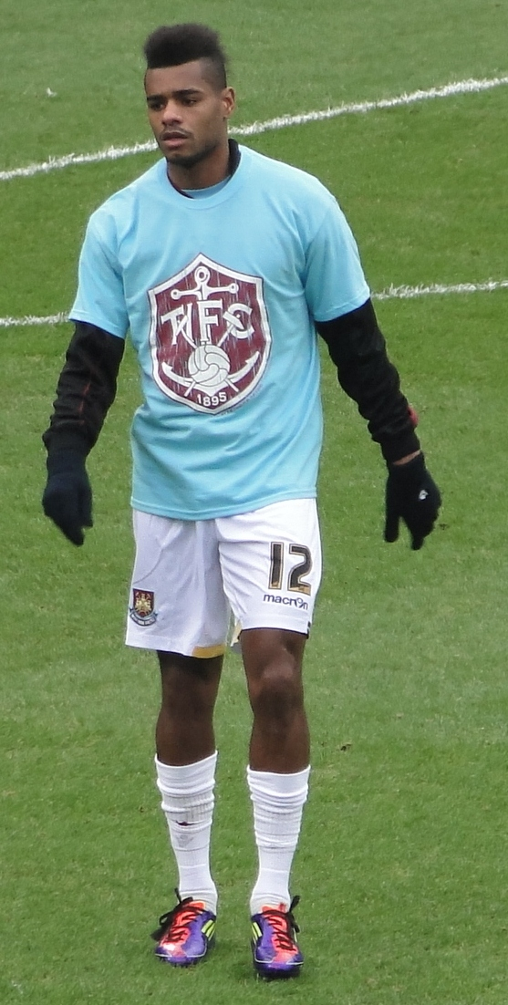 West Ham United player, Ricardo Vaz Tê warming up before his West Ham debut game against Millwall at The Boleyn Ground, Upton Park, London